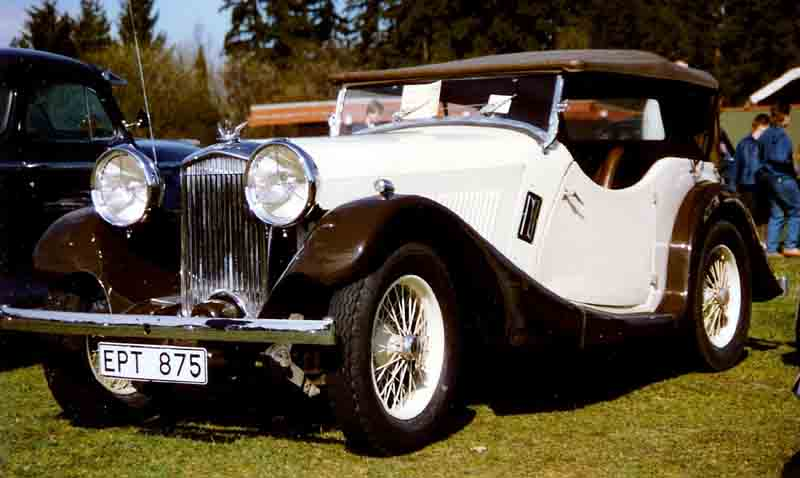 British Salmson S4C 12/70 4-Seater Tourer 1935